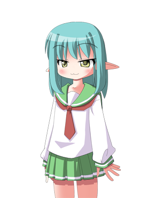 Original character